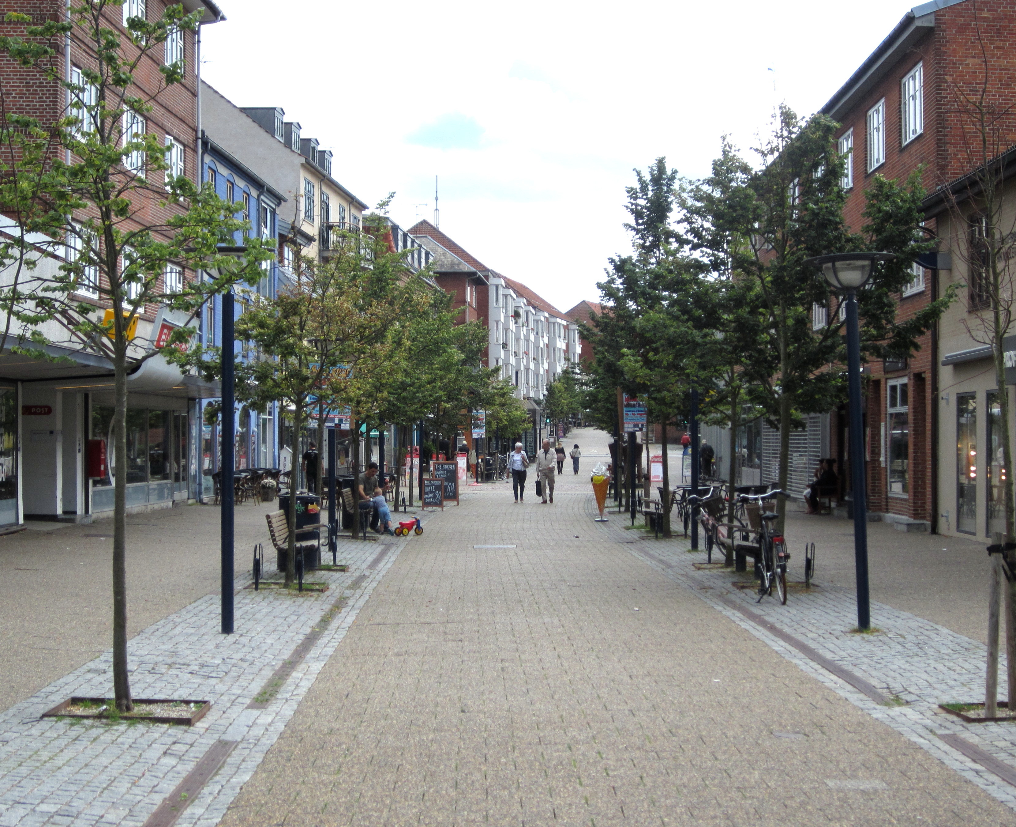 The pedestrian street "Centrumgaden" in Copenhagen suburb "Ballerup".